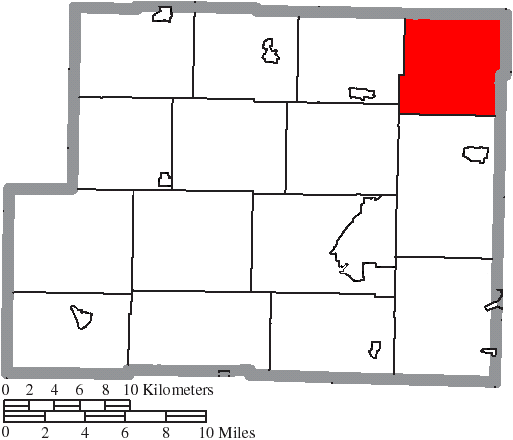 Map of the municipal and township boundaries of Harrison County, Ohio, United States, as of the 2000 census, with the location of German Township highlighted. Township borders are shown only in unincorporated areas in order to differentiate incorporated and unincorporated areas more clearly.